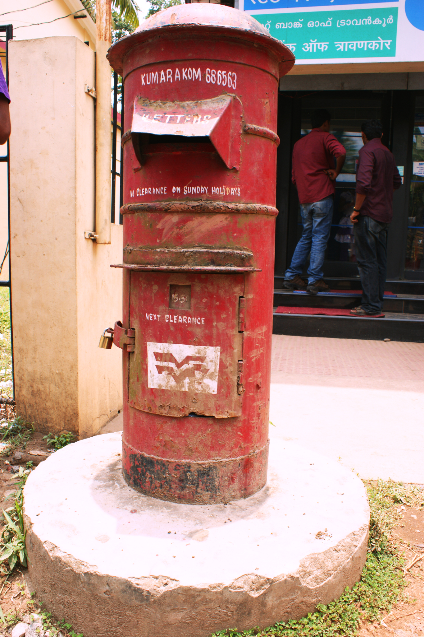 Kumarakom Post Box